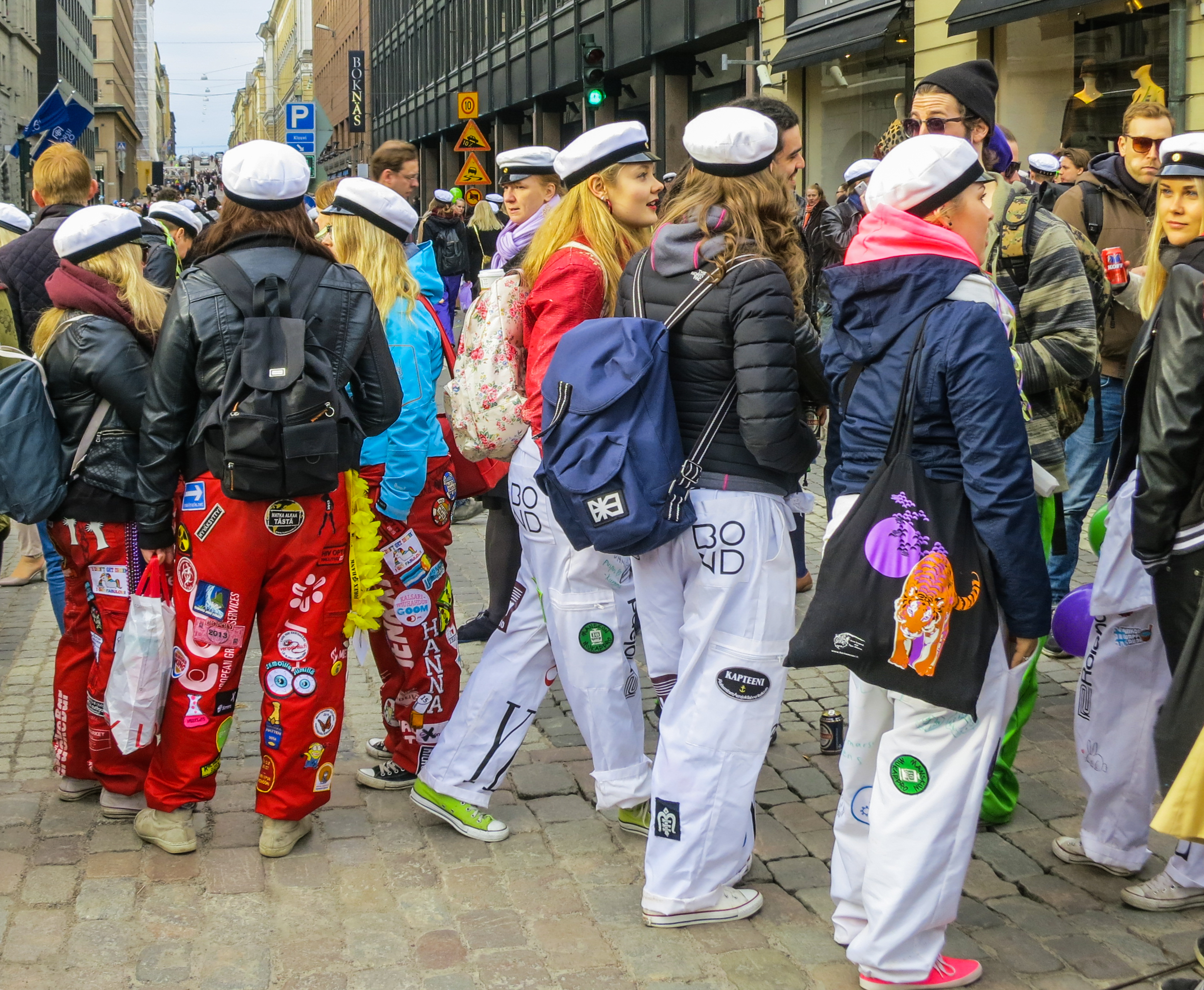 Finnish students on Vappu eve in Helsinki 2016